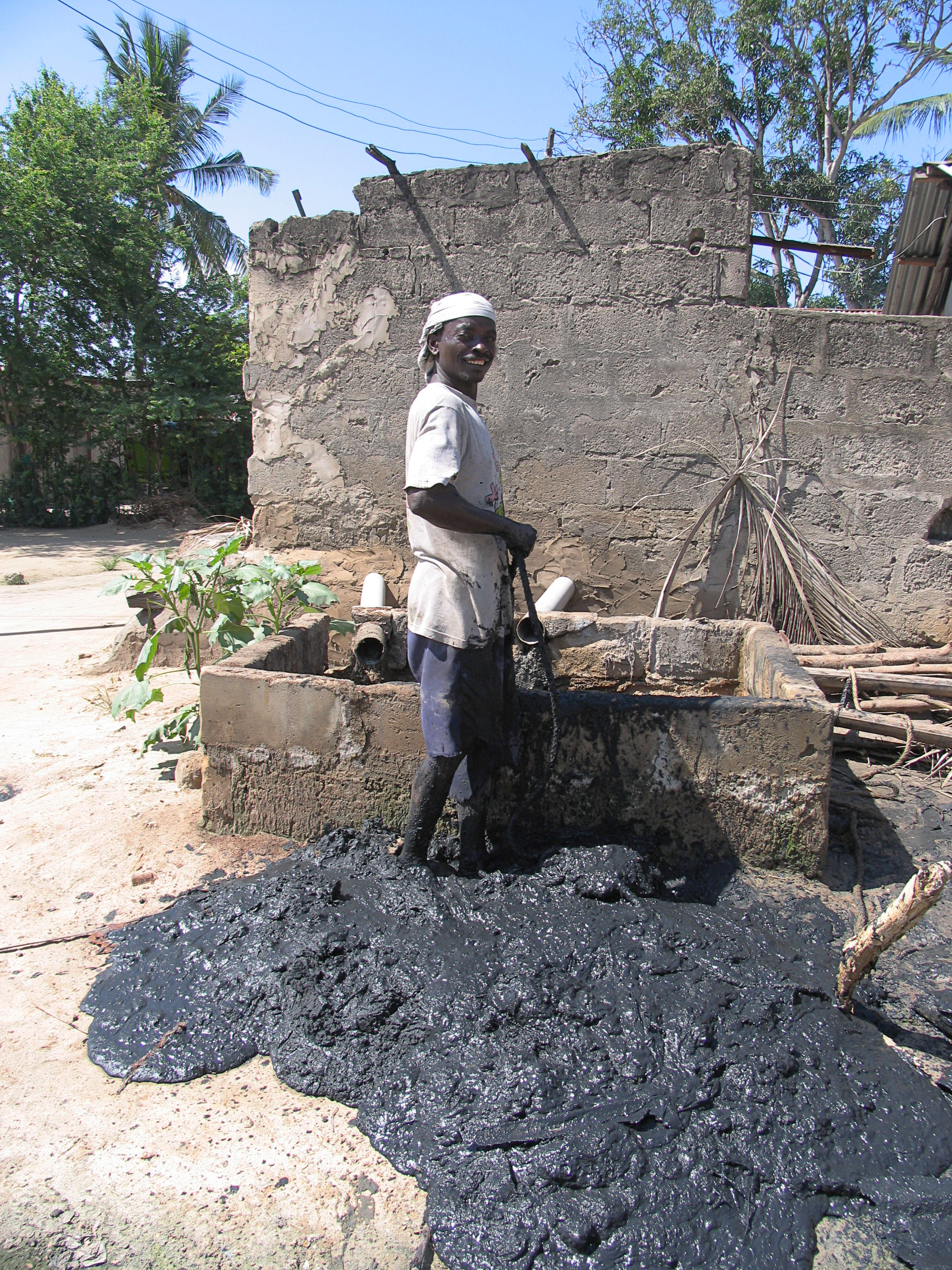 A "frogman" in Dar Es Salaam, usual surname of the people emptying latrine pits.